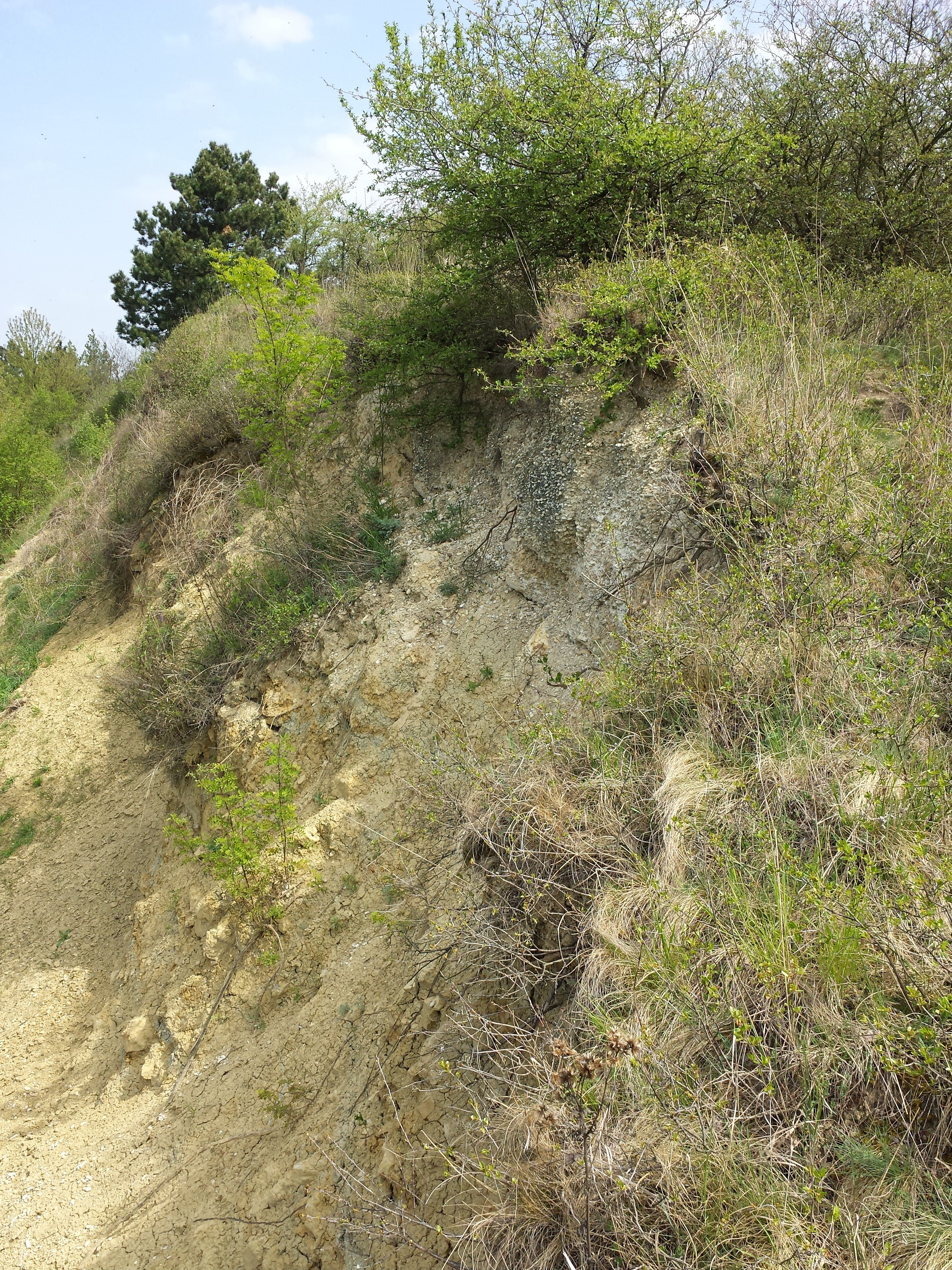 Burgstall near Haslach, district Hollabrunn, Lower Austria - ca. 350 m ü. A. Escarpment at peak, broken stone of primal Danube